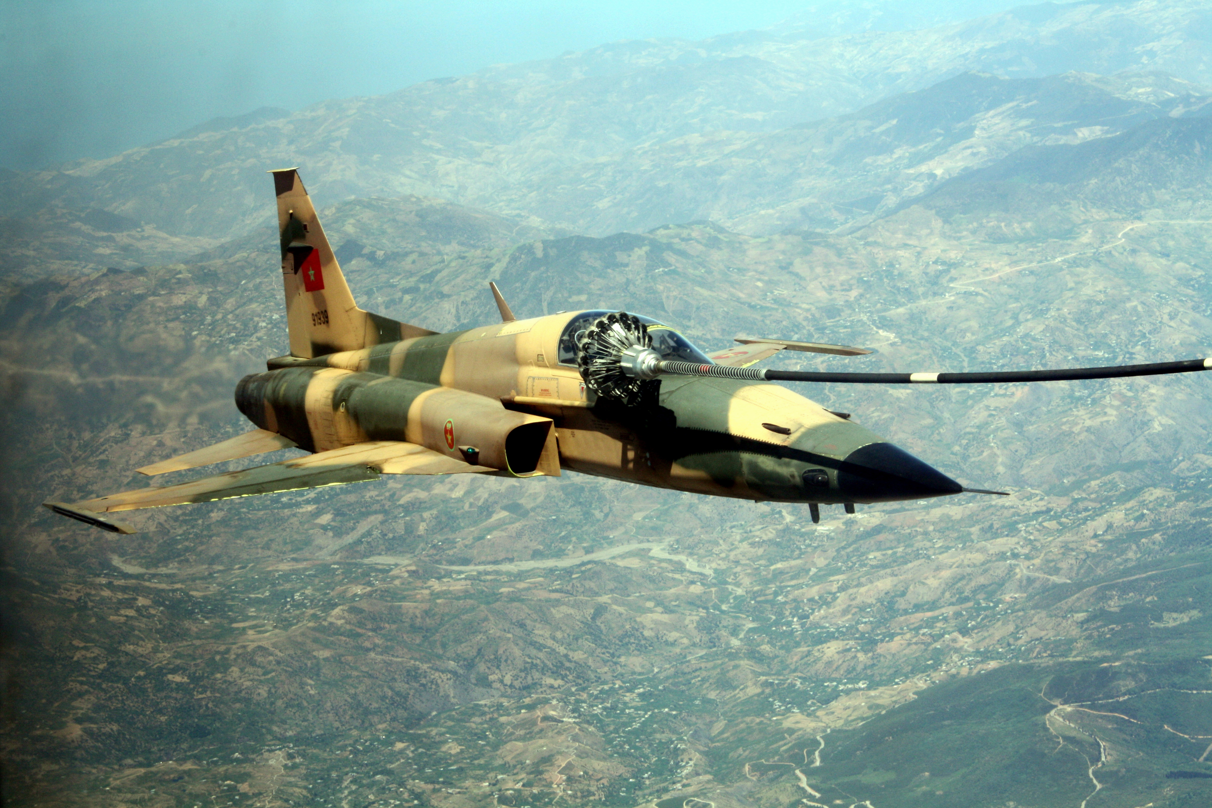 A Royal Moroccan Air Force F-5 Tiger II jet refuels during a fixed wing aerial refueling mission in support of Exercise AFRICAN LION 2010.